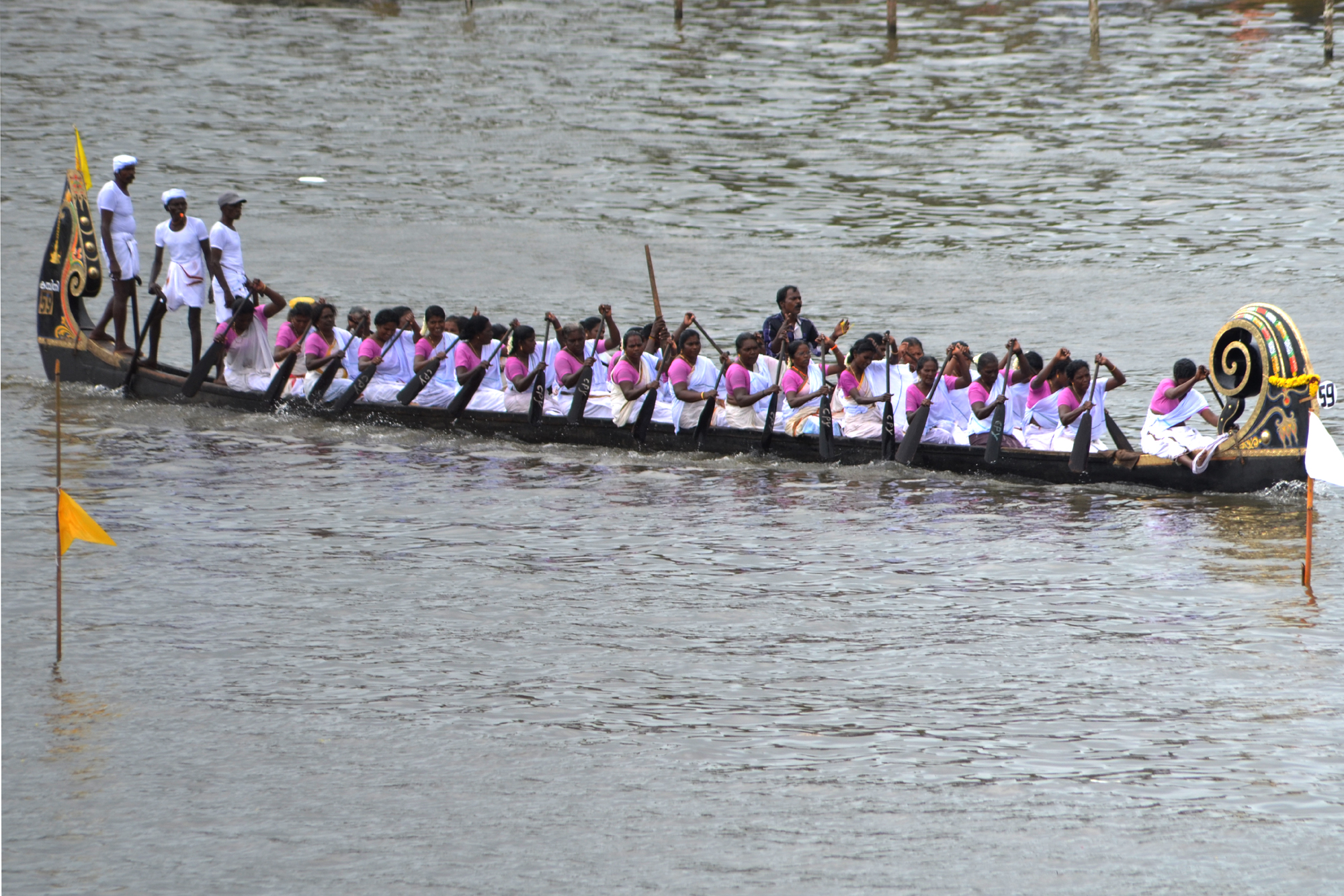 Boat races of Kerala